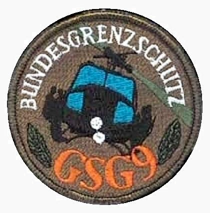 The old logo of the German GSG 9.